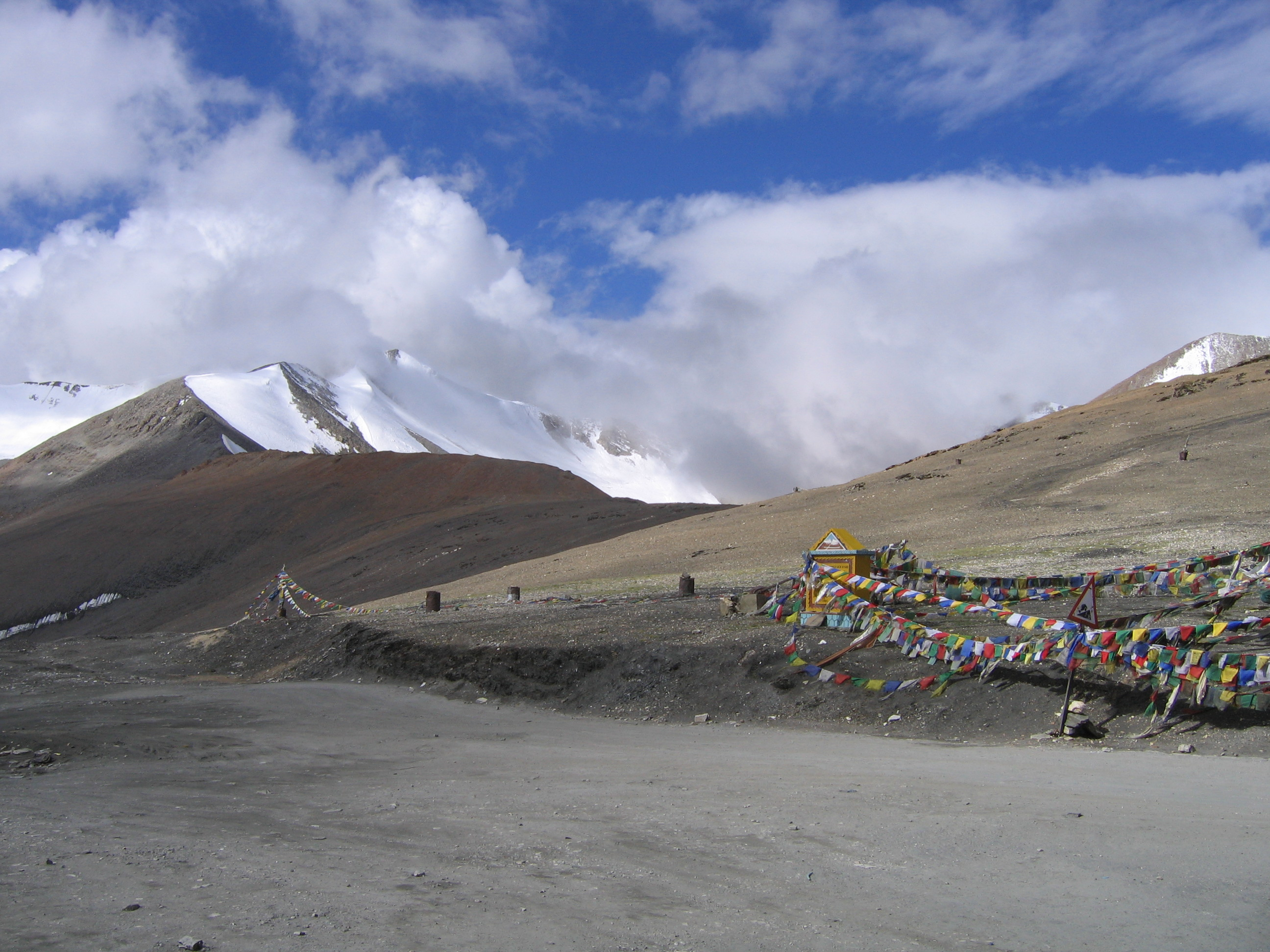 Taglang La, a Himalayan mountain pass in the Ladakh region of Jammu and Kashmir, northern India. It is one of the highest motorable passes in the world.